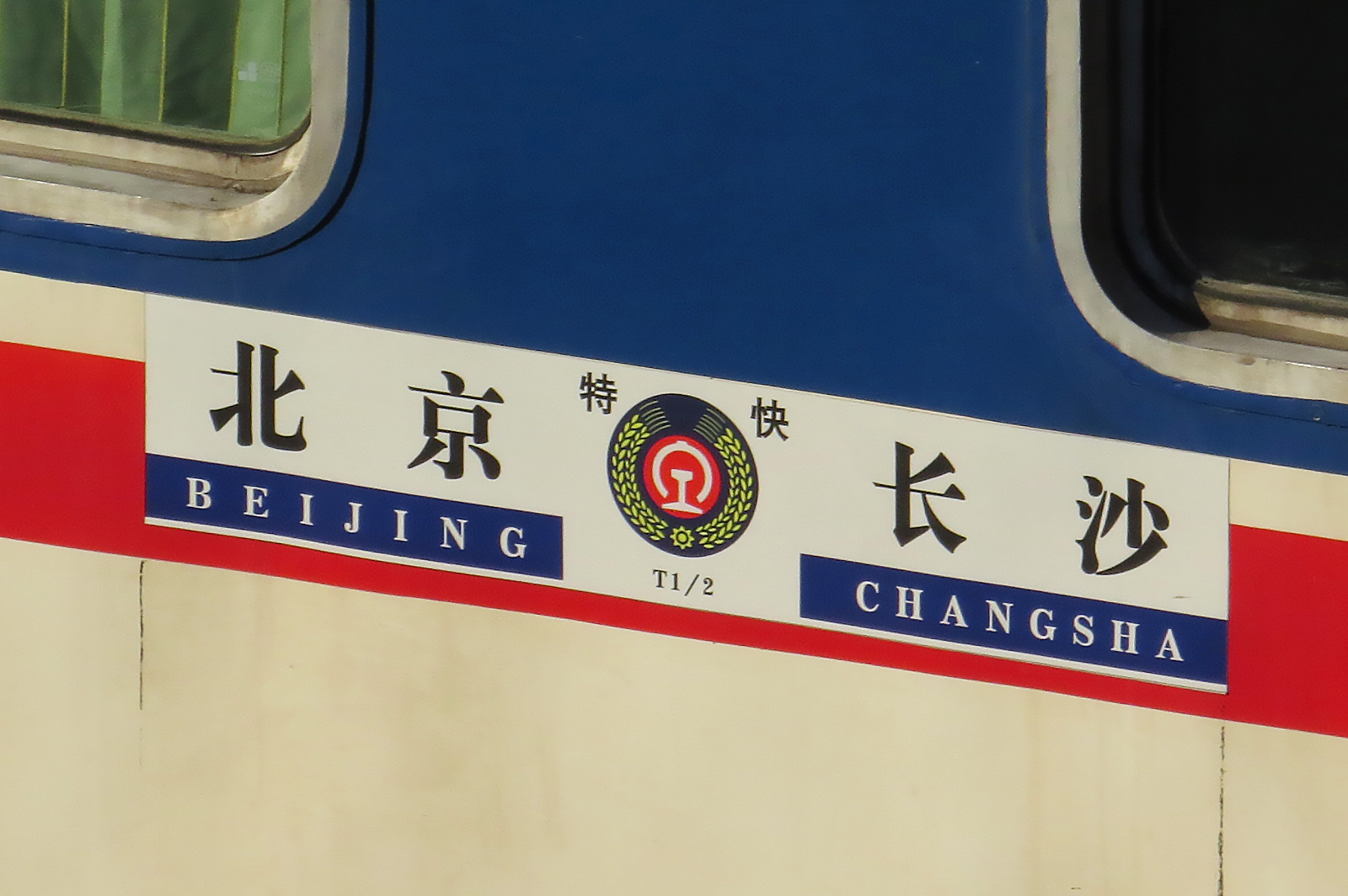 Beijing to Changsha, with the 1998-built 25Ks still in use.